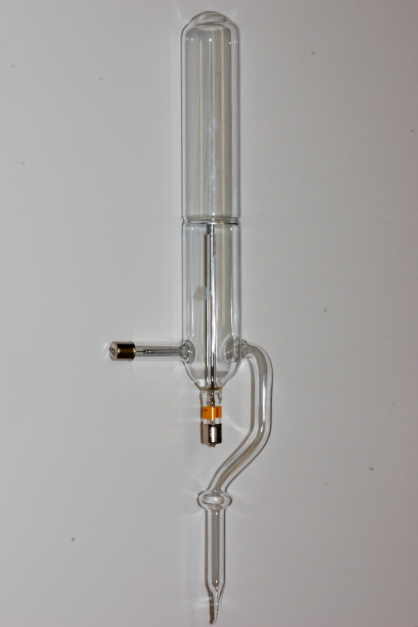 Anode ray (kanal ray) tube: the anode is to the left and the cathode connection is at the bottom (orange) and extends to the perforated cathode at the middle of the tube.